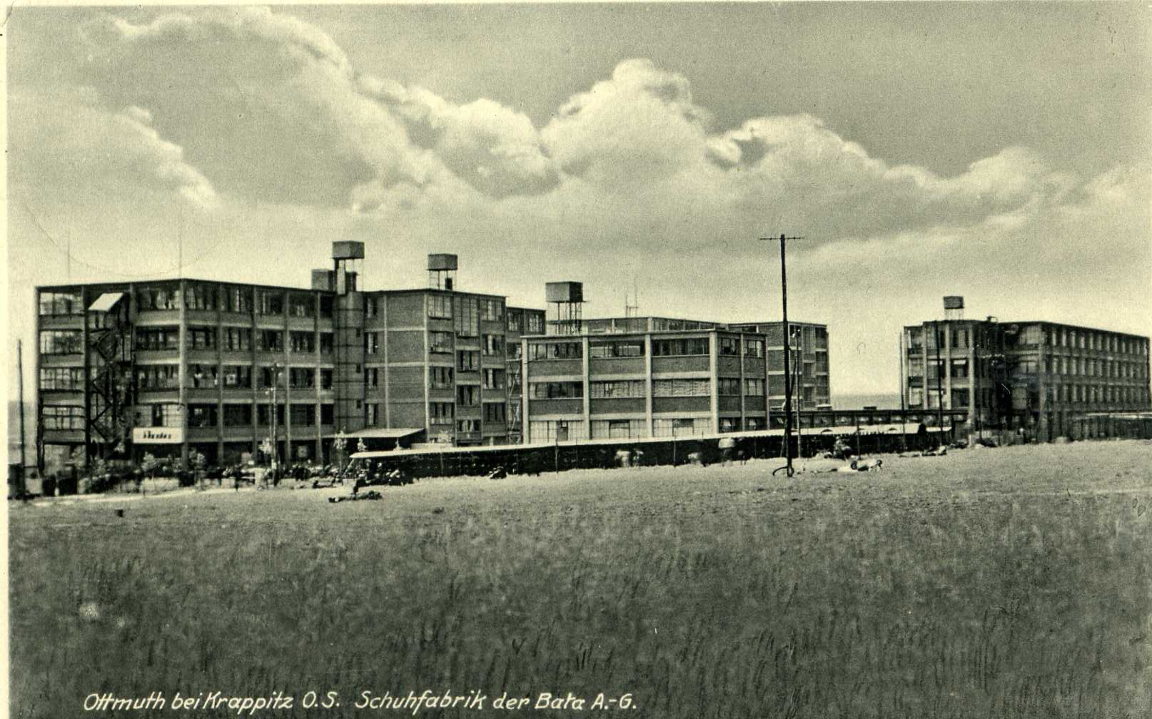 The shoe factory at Ottmuth (Otmęt) was built 1929-1931 by the Deutsche Schuh-AG Baťa in the same modern manner as other Baťa satellites. The company was named Baťa AG from 1935 to 1938, afterwards OTA Schlesische Schuh-Werke Ottmuth AG – when the Nazis made the Baťa family retire from the company. During World War II it was staffed by forced labour, perhaps also from Stalag VIIIb.